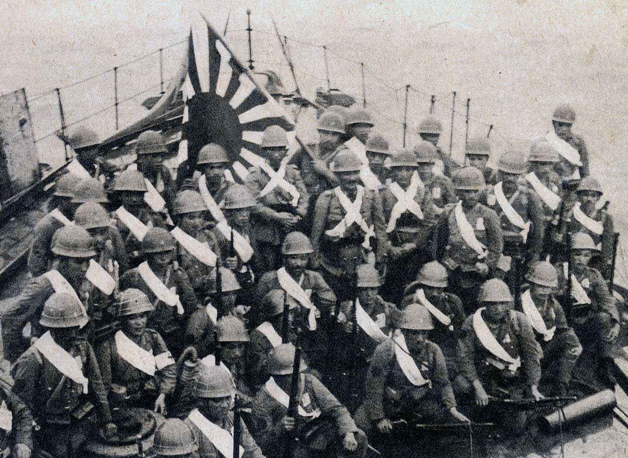 The Capture of a choke point, city of Anqing, Special Naval Landing Forces on the deck board of the IJN xxx, June 11th